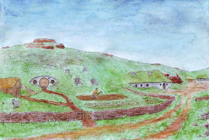 The village Hardbottle in the Northfarthing of the Shire